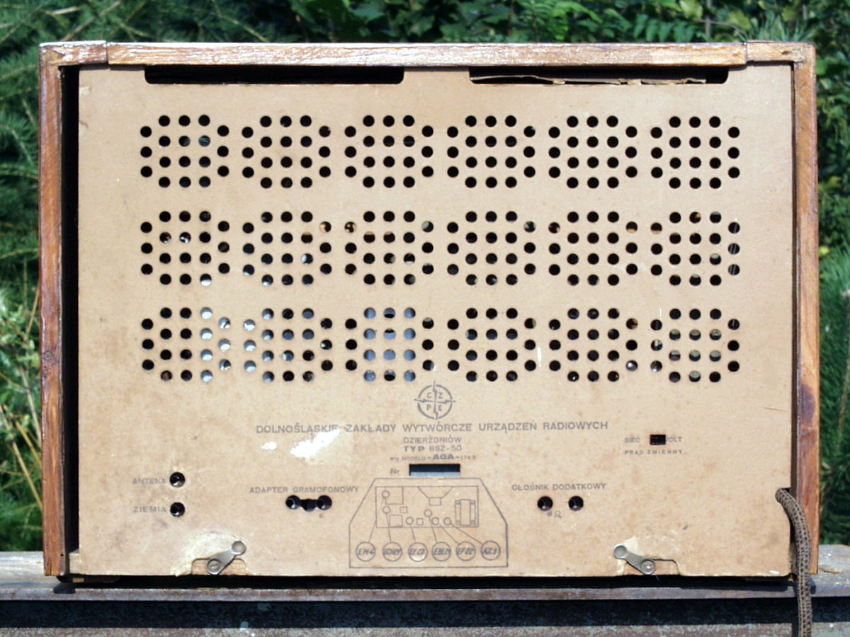 Radio "AGA RSZ-50", (rear) manufacturer: "DIORA" (Poland), 1947-1950